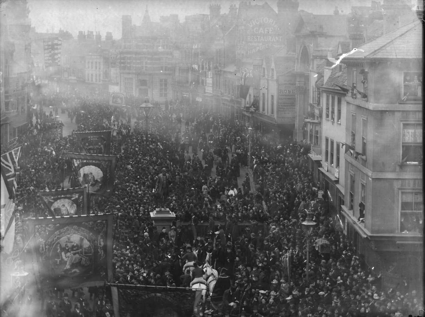 Broad Street, Reading, looking westwards from the crossing of Minster Street and the Butter Market, 4th November 1891. Crowds at the unveiling of the statue of George Palmer, with a procession of banners down the south side of the street. 1890-1899 : glass negative by H. W. Taunt, Box 22 No. 8004.